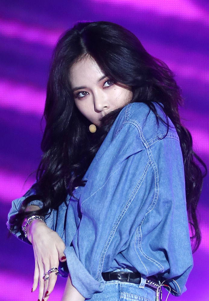 HyunA at 2014 Gyeongju Hallyu Dream Concert.